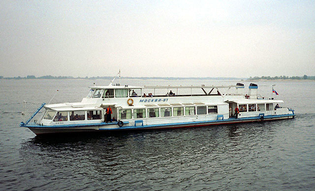 "MOSKVA-57" on Volga river in Volgograd (2002). Project R-51E